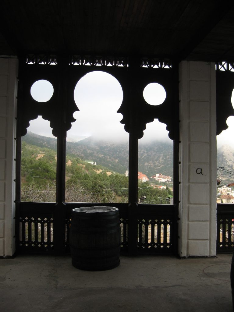 Golytsin house